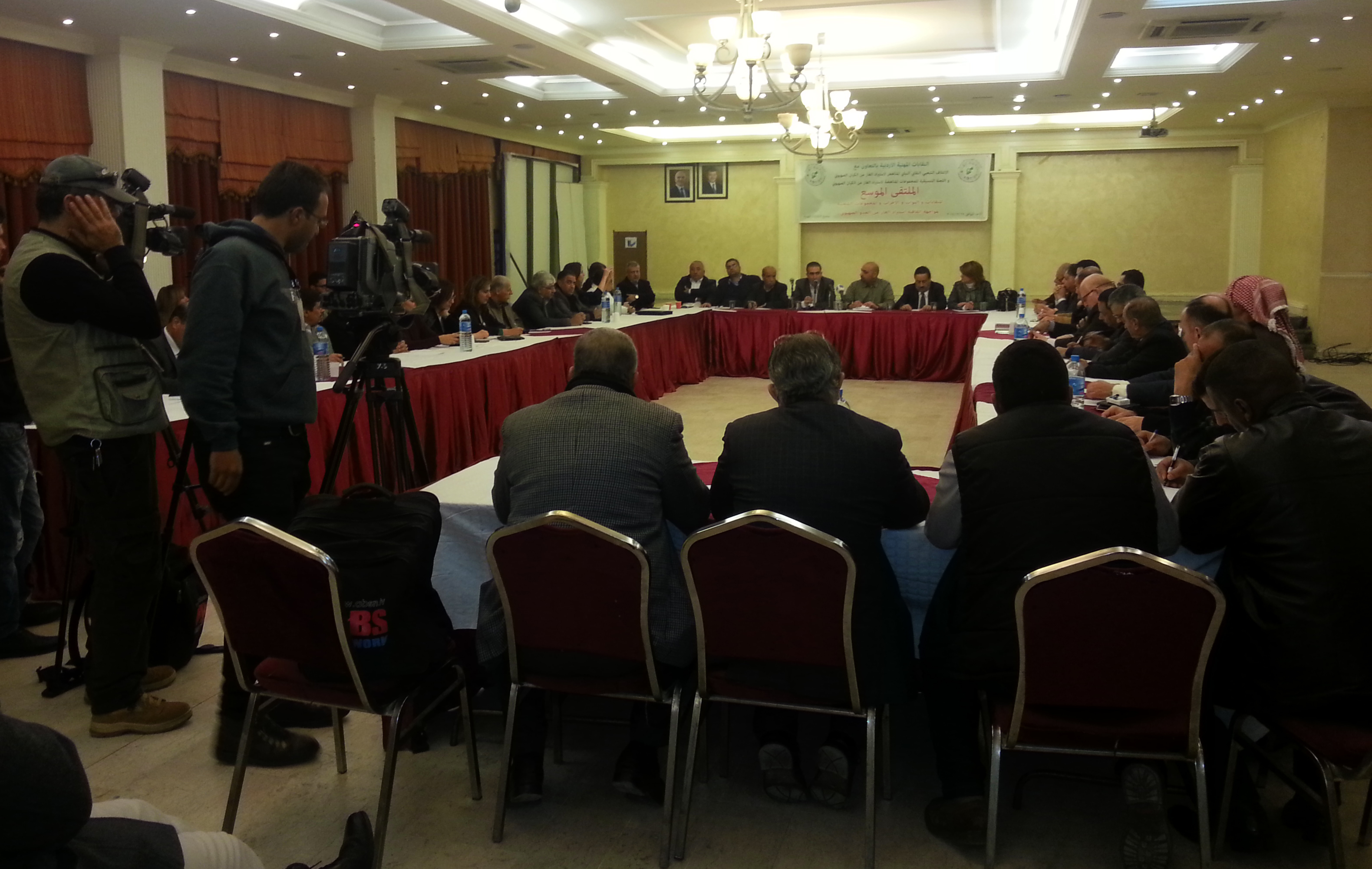 صورة من الملتقى الوطني الموسع لرفض اتفاقية الغاز مع العدو الصهيوني